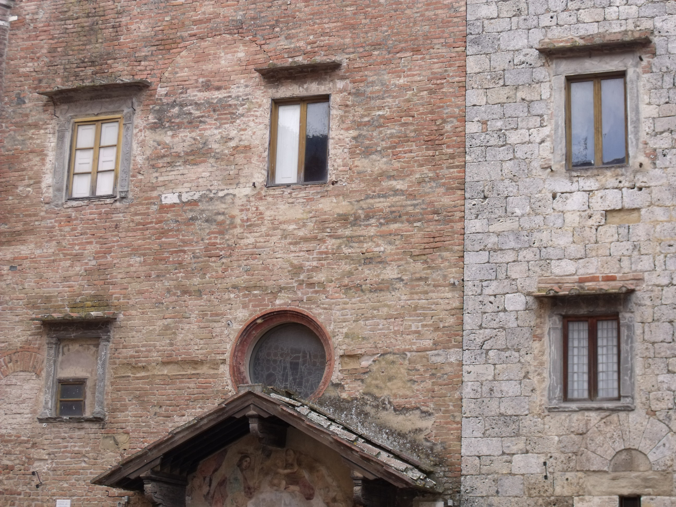 The four windows designed by Antonio Federighi (and others) for the Church of Chiesa delle Carceri di Sant’Ansano, Siena, Tuscany, Italy